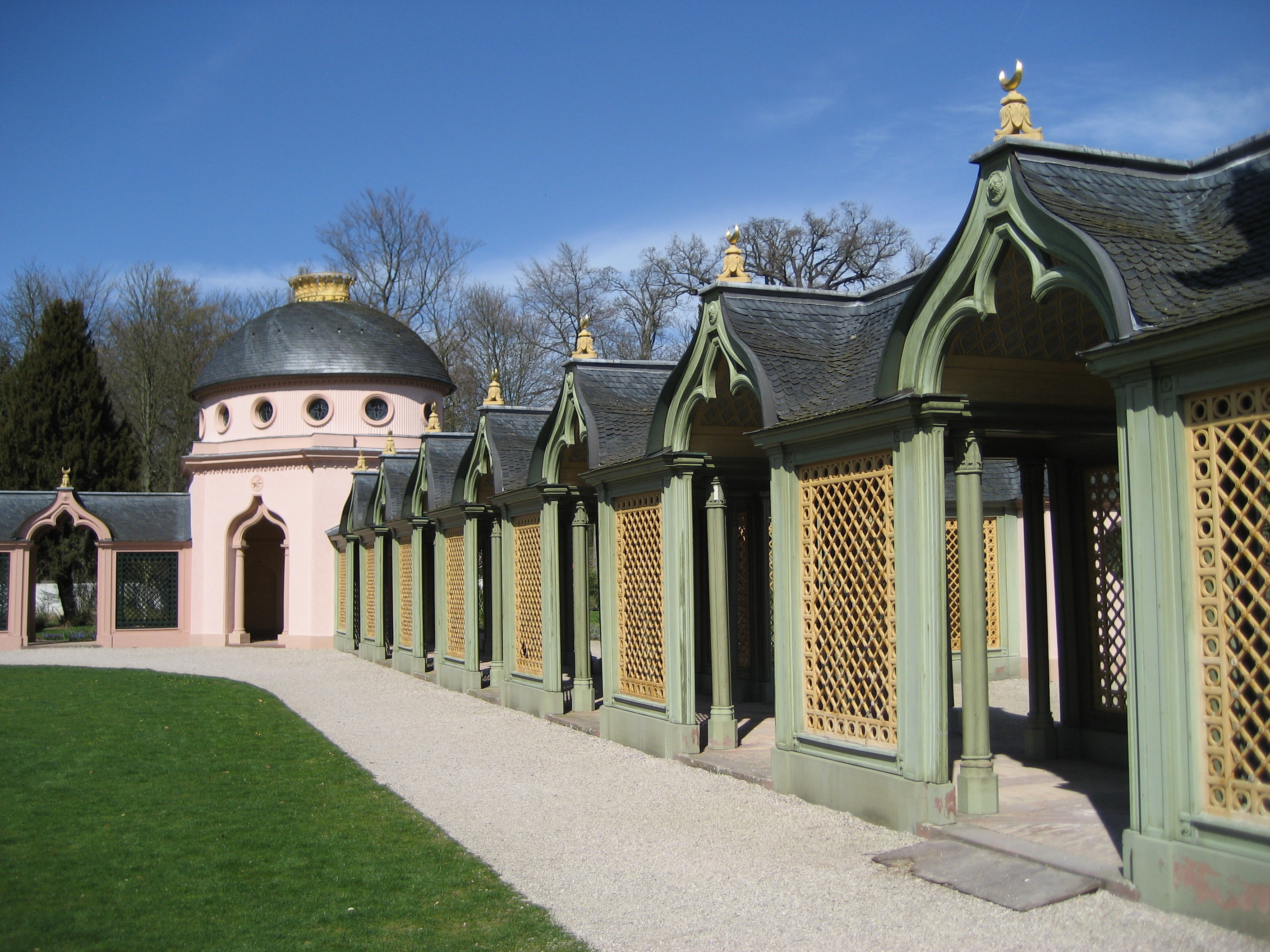 Mosque, Castle Garden of Schwetzingen, doister